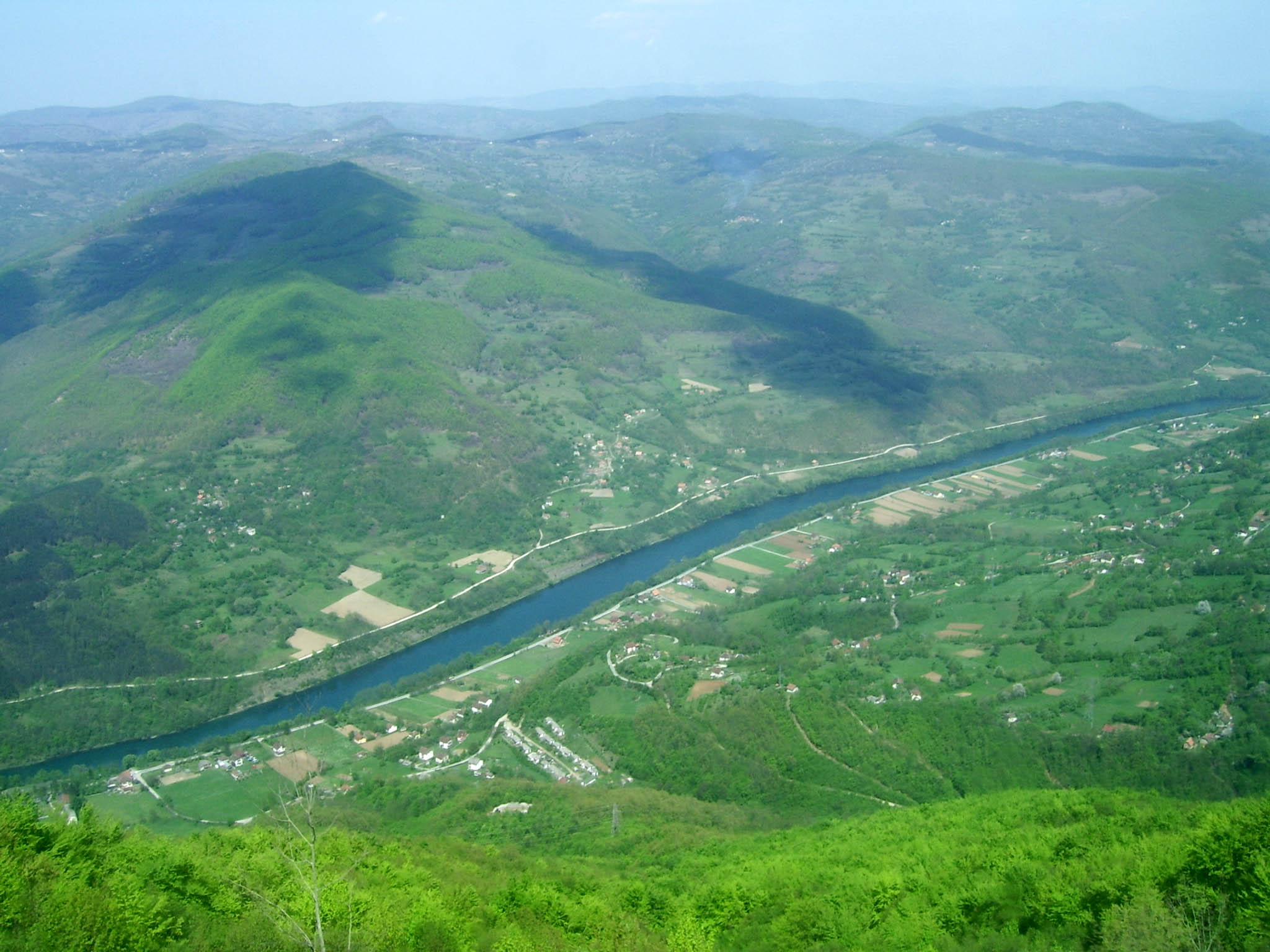 Tara Mountain, Serbia